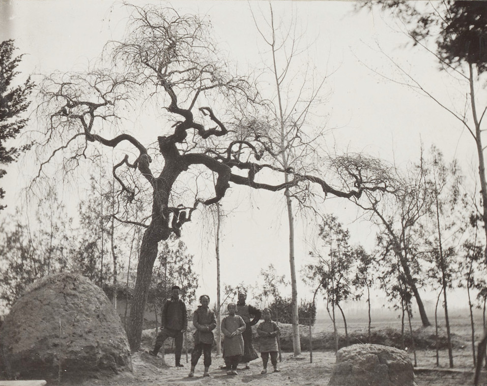 Ulmus pumila 'Pendula' photographed by Mr. Frank Nicholas Meyer on an old grave near Fengtai, Chihli, China. March 27th 1908